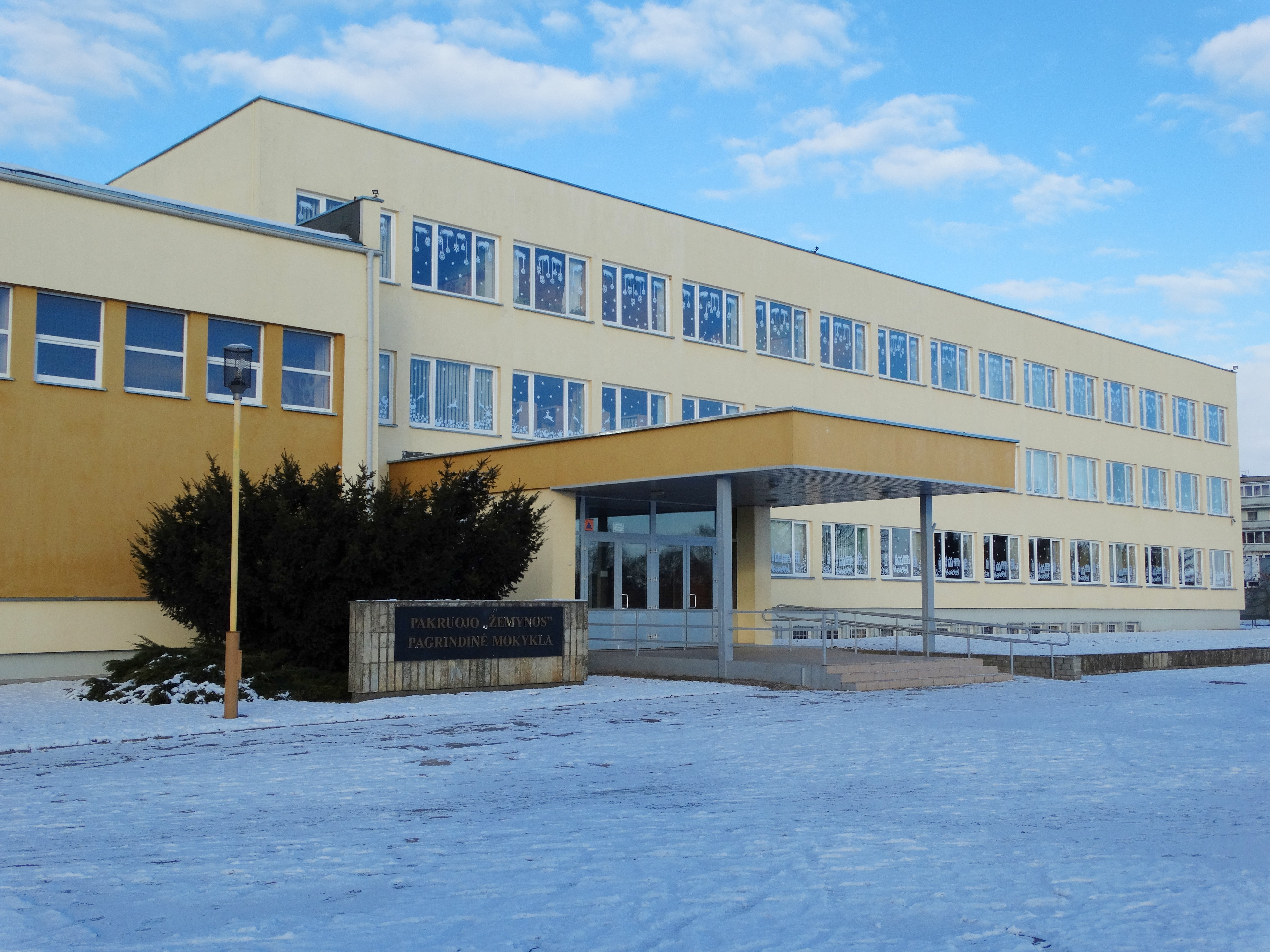 Žemyna Basic School, Pakruojis, Lithuania